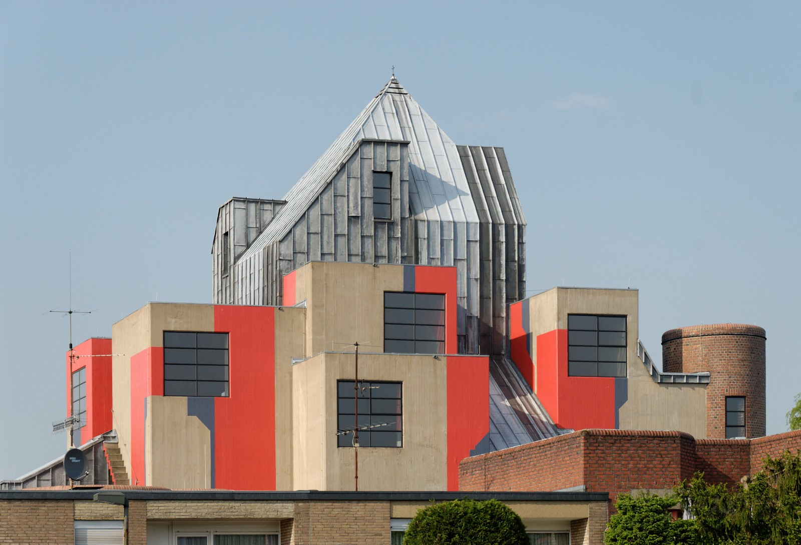 Saint Matthew in Düsseldorf-Garath, Germany